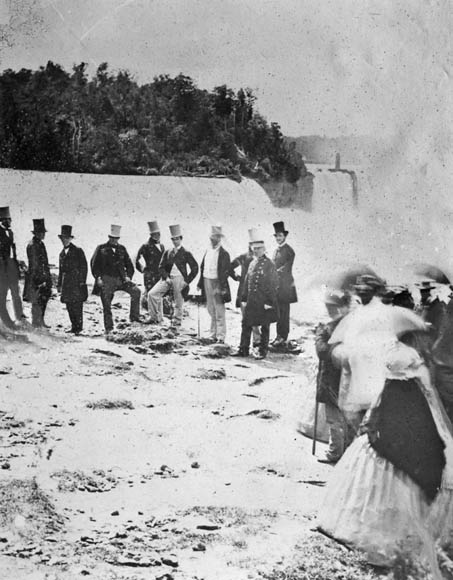 H.R.H. Prince of Wales and Suite at Point View. Niagara Falls, Canada